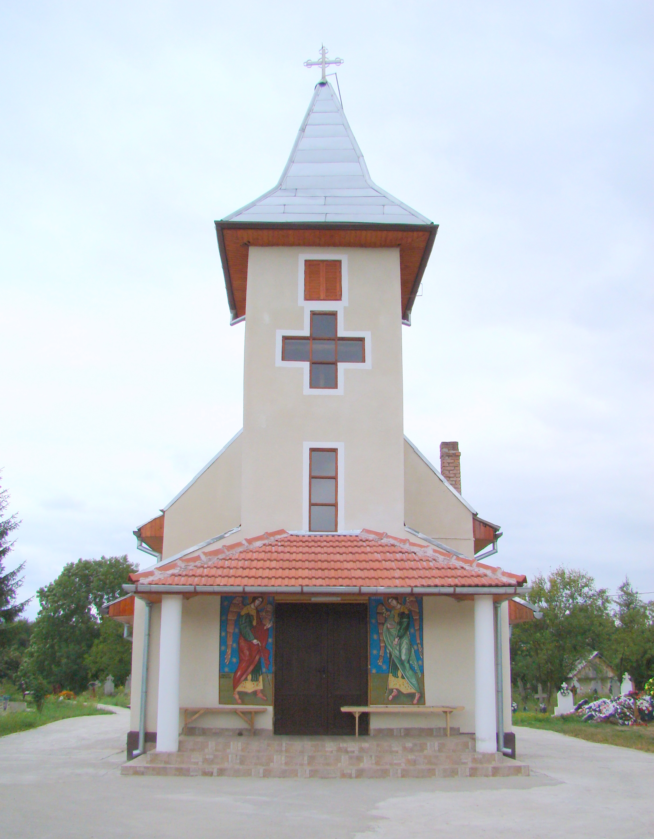 Orthodox church in Bacea, Hunedoara county, Romania